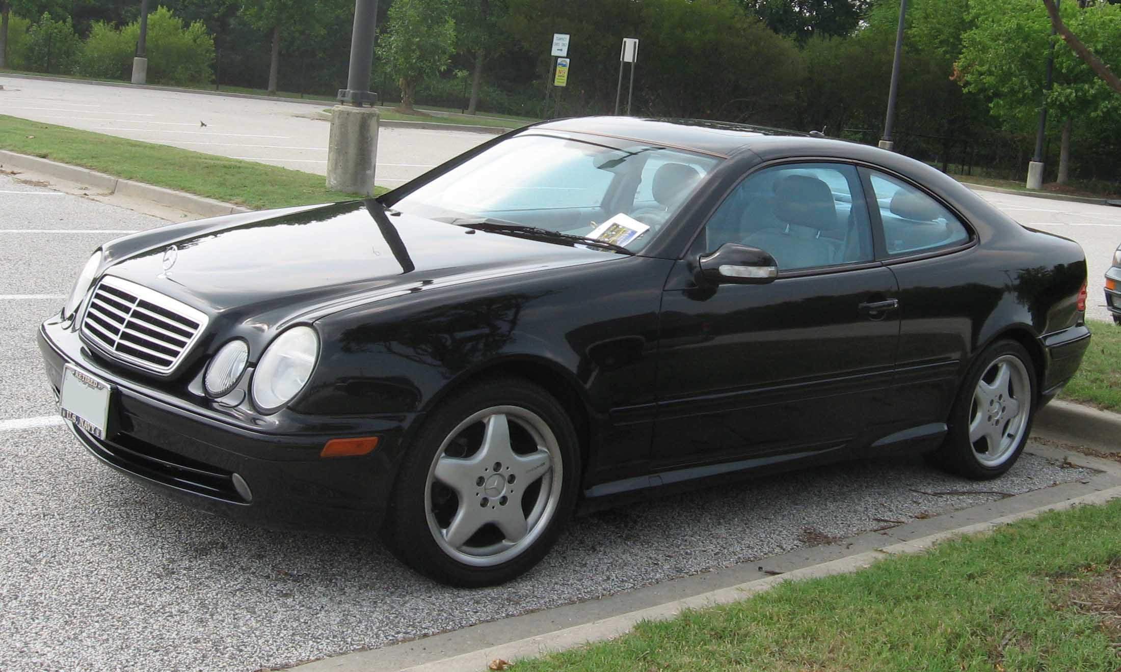 W208 Mercedes-Benz CLK 430 photographed in USA.